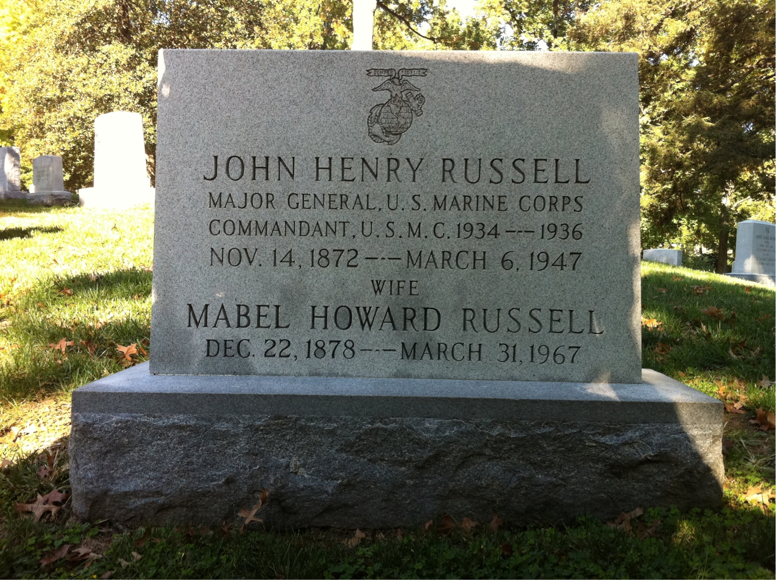 Grave of John H. Russell Jr. at Arlington National Cemetery